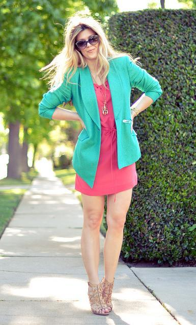 Woman wearing a coral dress and teal blazer.